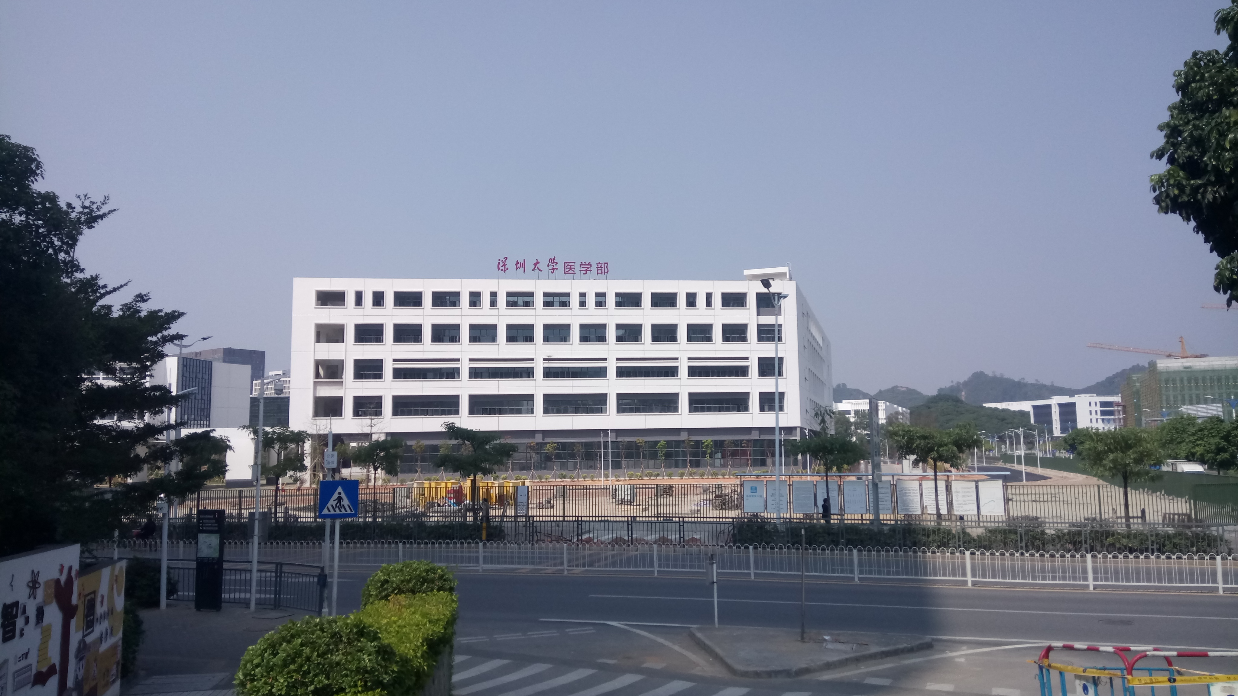 Shenzhen University Medical School